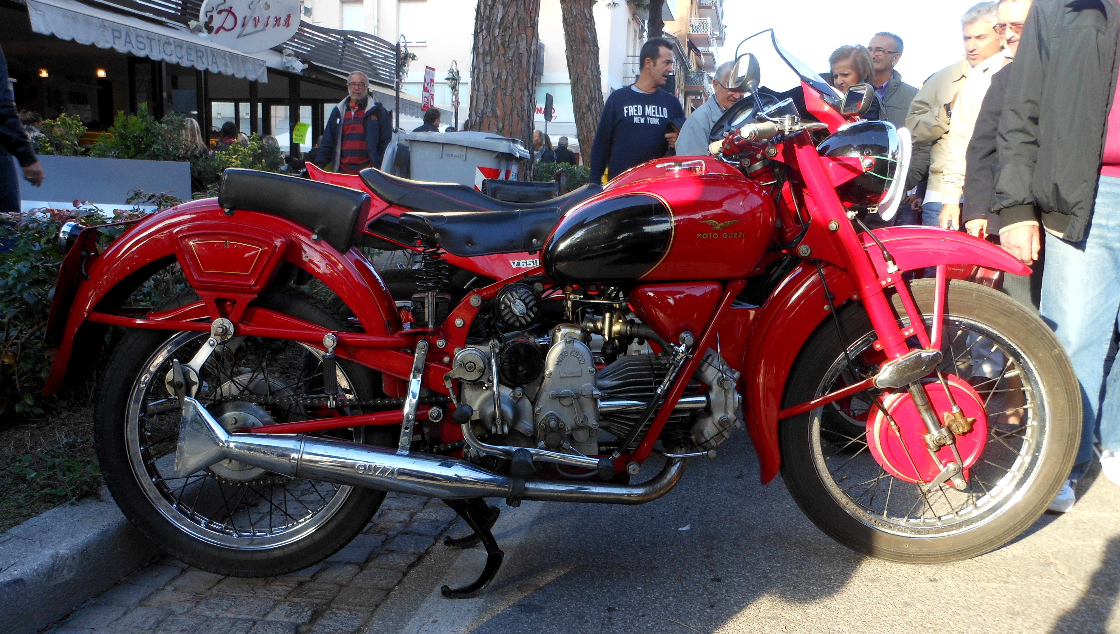 A Moto Guzzi Airone Sport 250 in Rimini